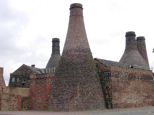 Gladstone Pottery Museum